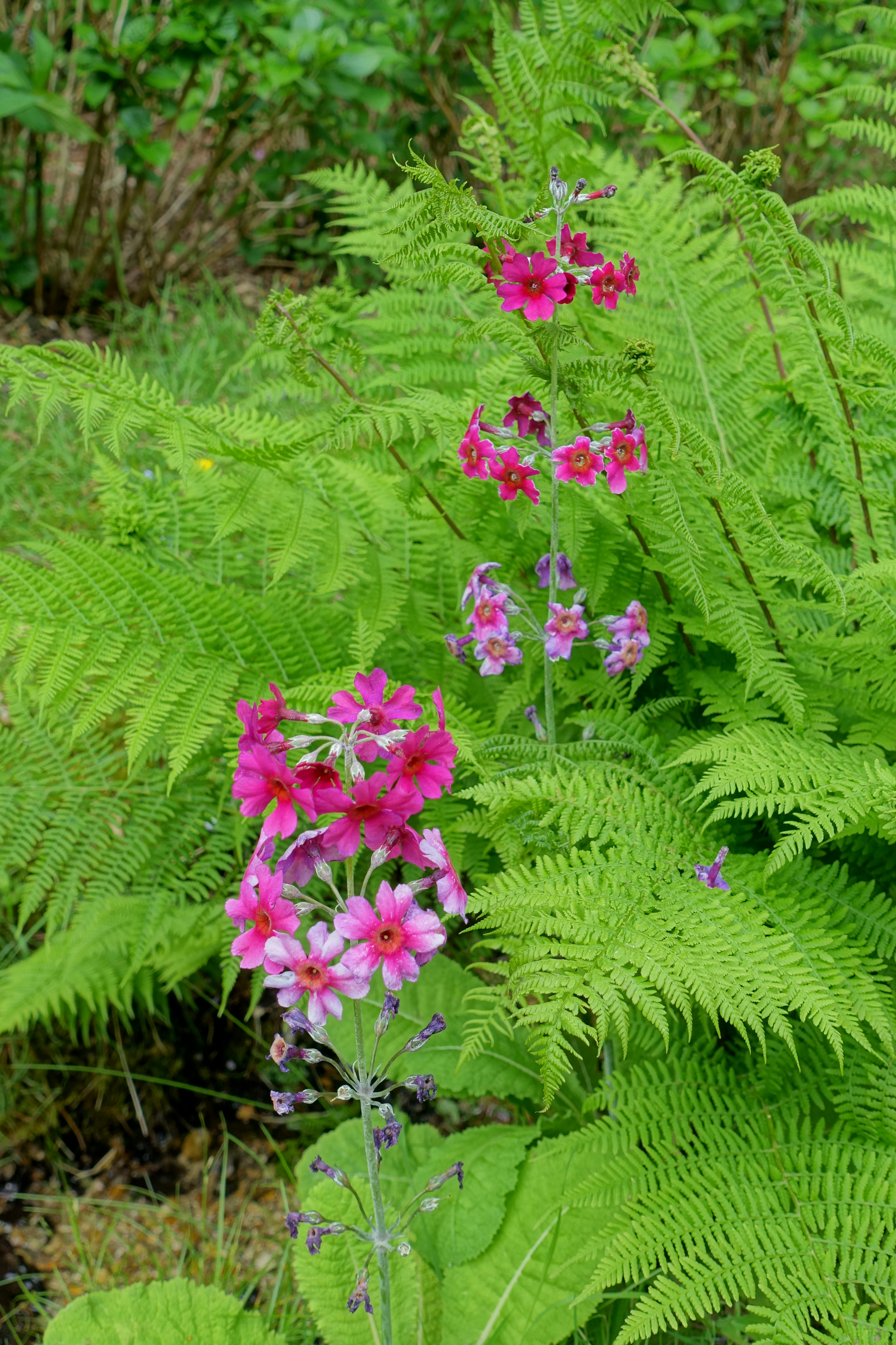 Exbury Gardens - Exbury, England.